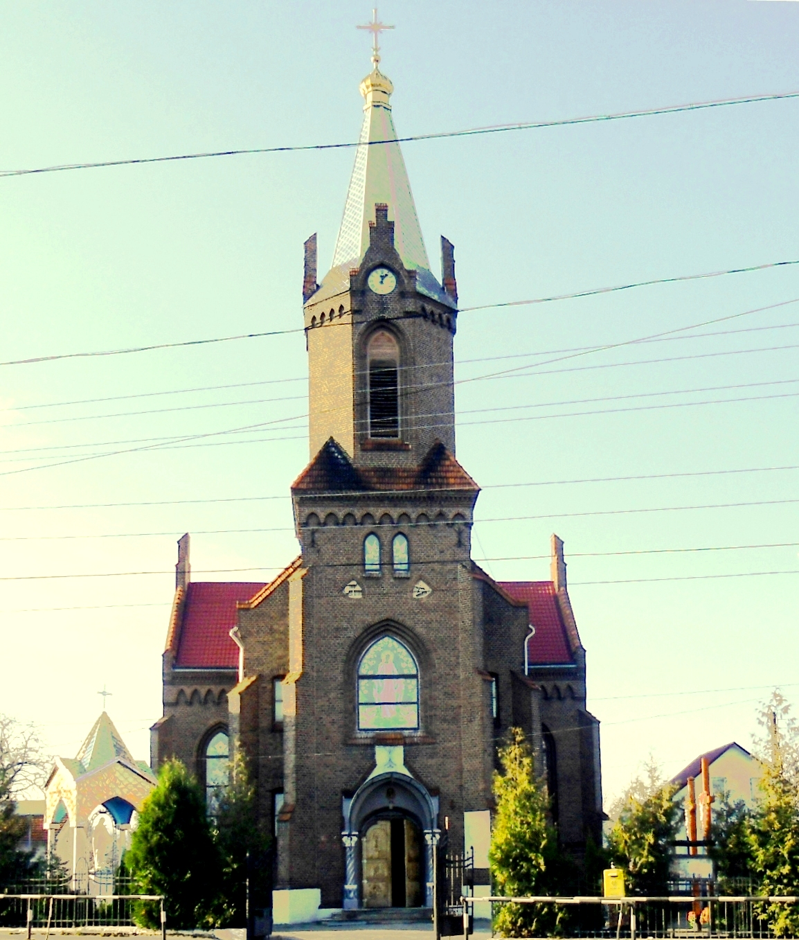 Greek Catholic Church of St. Anne in Boryslav (1902). (By 1945 - Church of St. Barbara.)